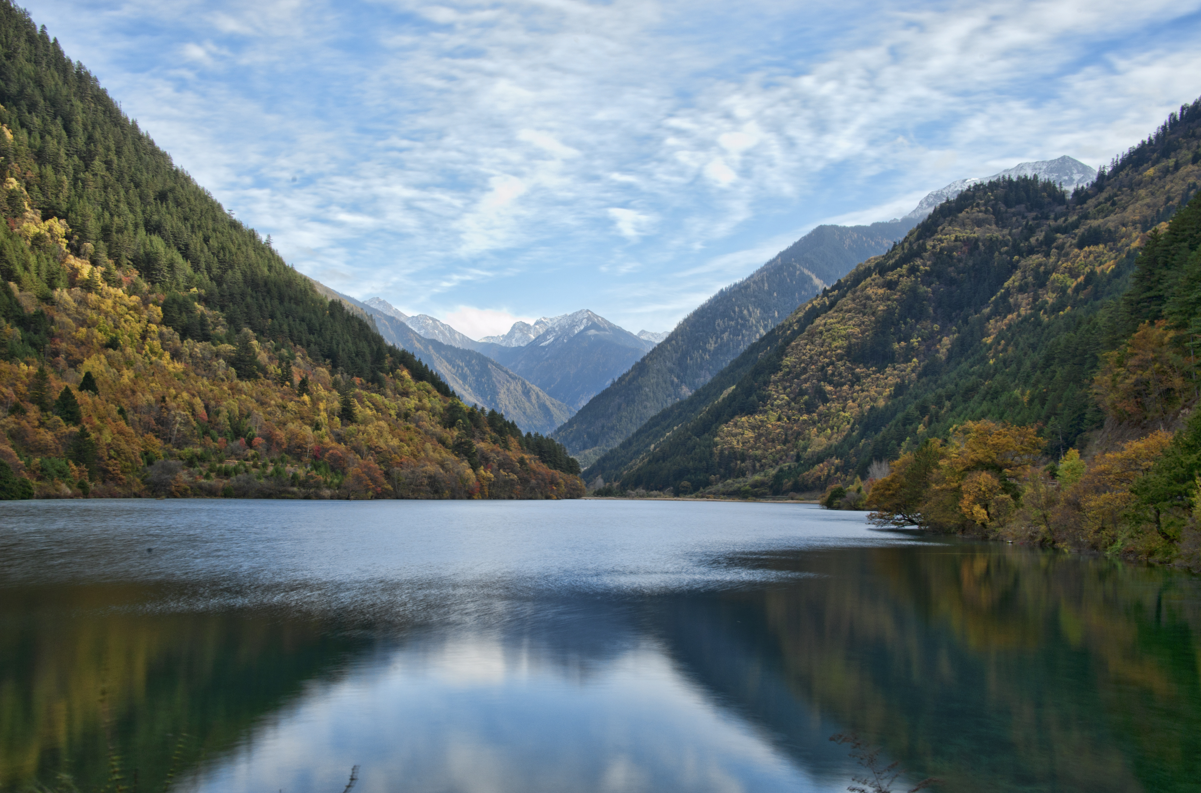 jiuzhaigou valley national park sichuan china fall autumn 2011 诺日朗群海, Nuòrìlǎng Qúnhǎi rhinoceros lake xi niu hai shuzheng valley 树正沟